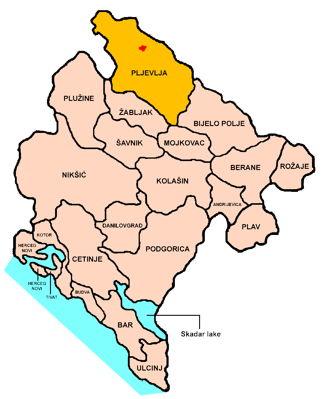 Location of Pljevlja town and municipality within Montenegro